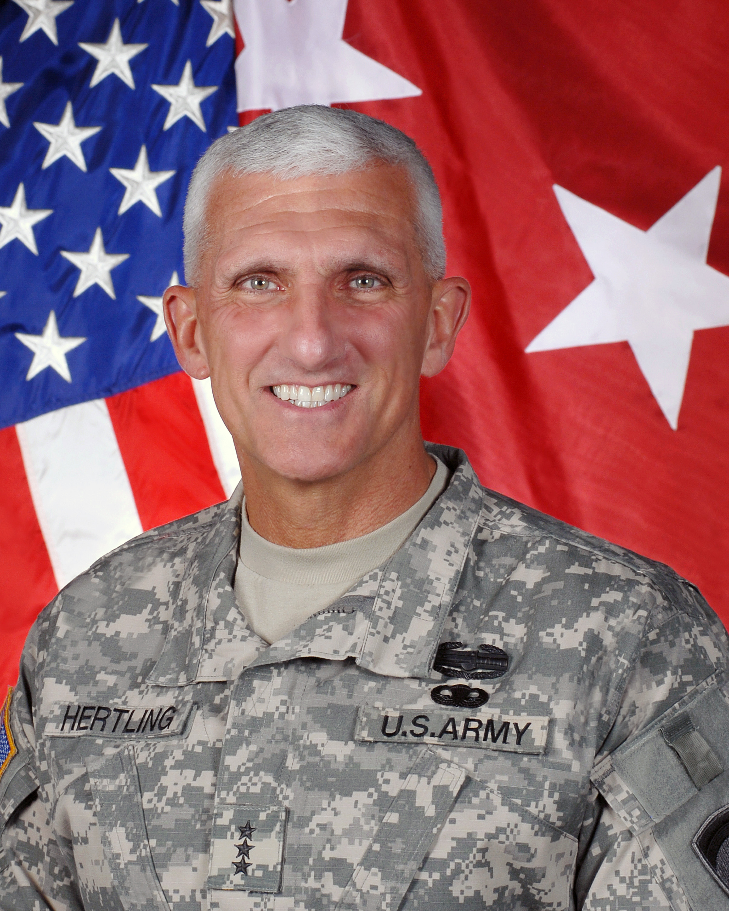 LTG Mark P. Hertling, Commander USAEUR/Seventh Army